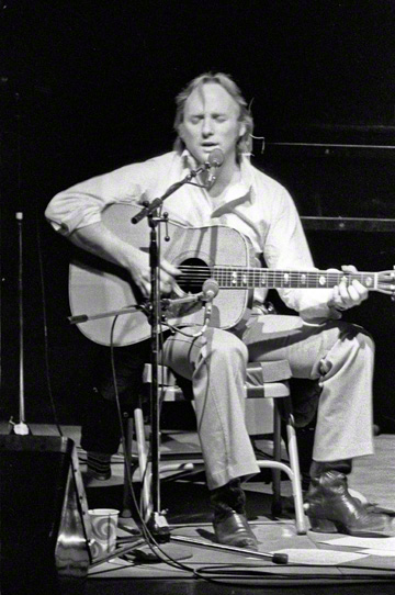 1978 Stephen Stills performing with Arcosanti, Arizona, USA